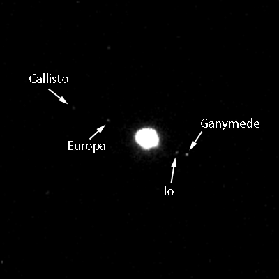 Published February 18, 2011, this image acquired by the MESSENGER spacecraft features Jupiter and the Galilean satellites. This image includes the full resolution captured image by the Narrow Angle Camera of the Mercury Dual Imaging System instrument.